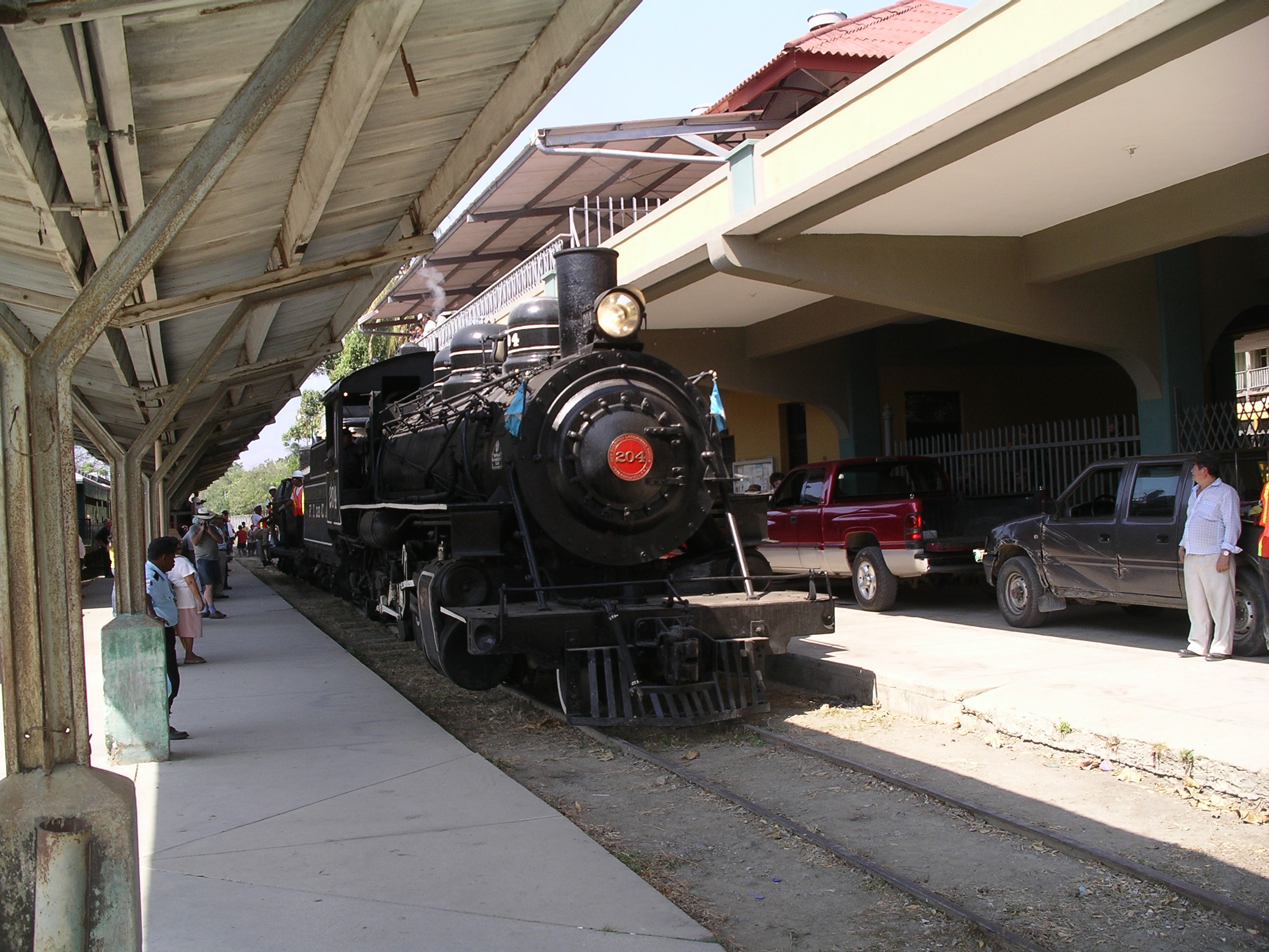 Railway station Zacapa, located ca 120 km east of Guatemala City, on the line to Puerto Barrios, in Guatemala, with steam locomotive 204 from C.A. (made by The Baldwin Locomotive Works in USA as No 74134, Nov 1948)